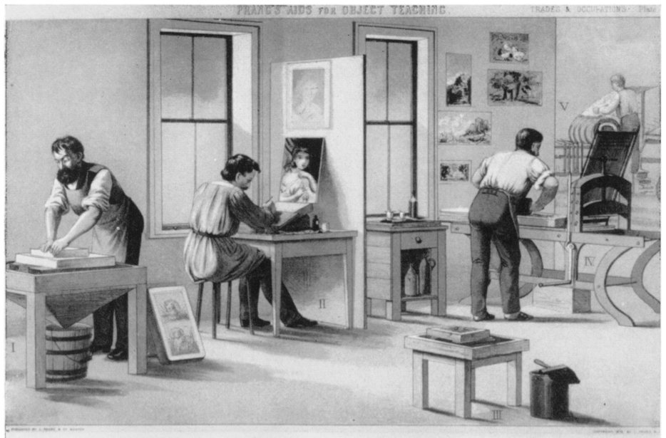 The Lithographer, by Louis Prang, 1874.